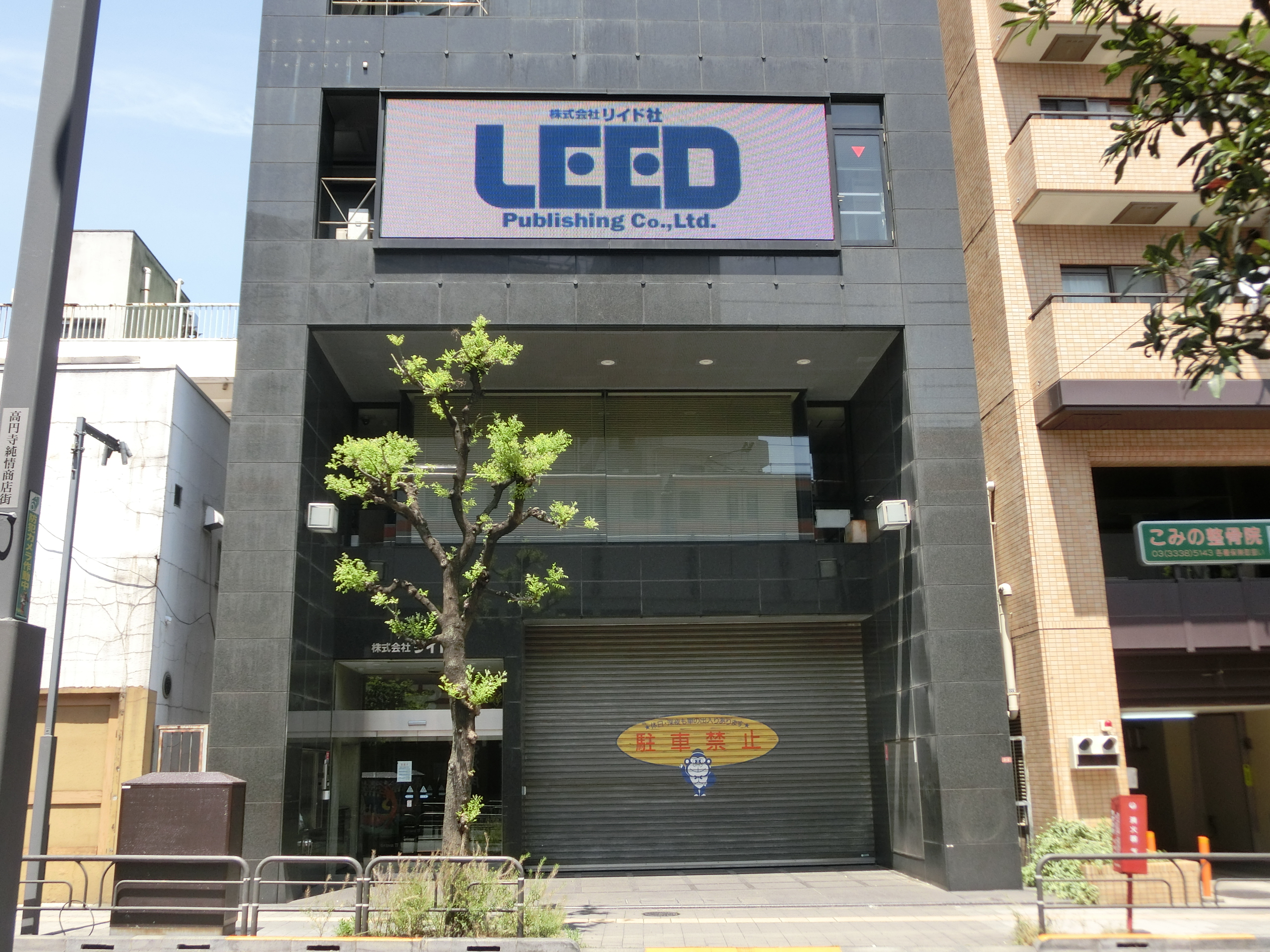 LEED Publishing Co., Ltd. Head Office